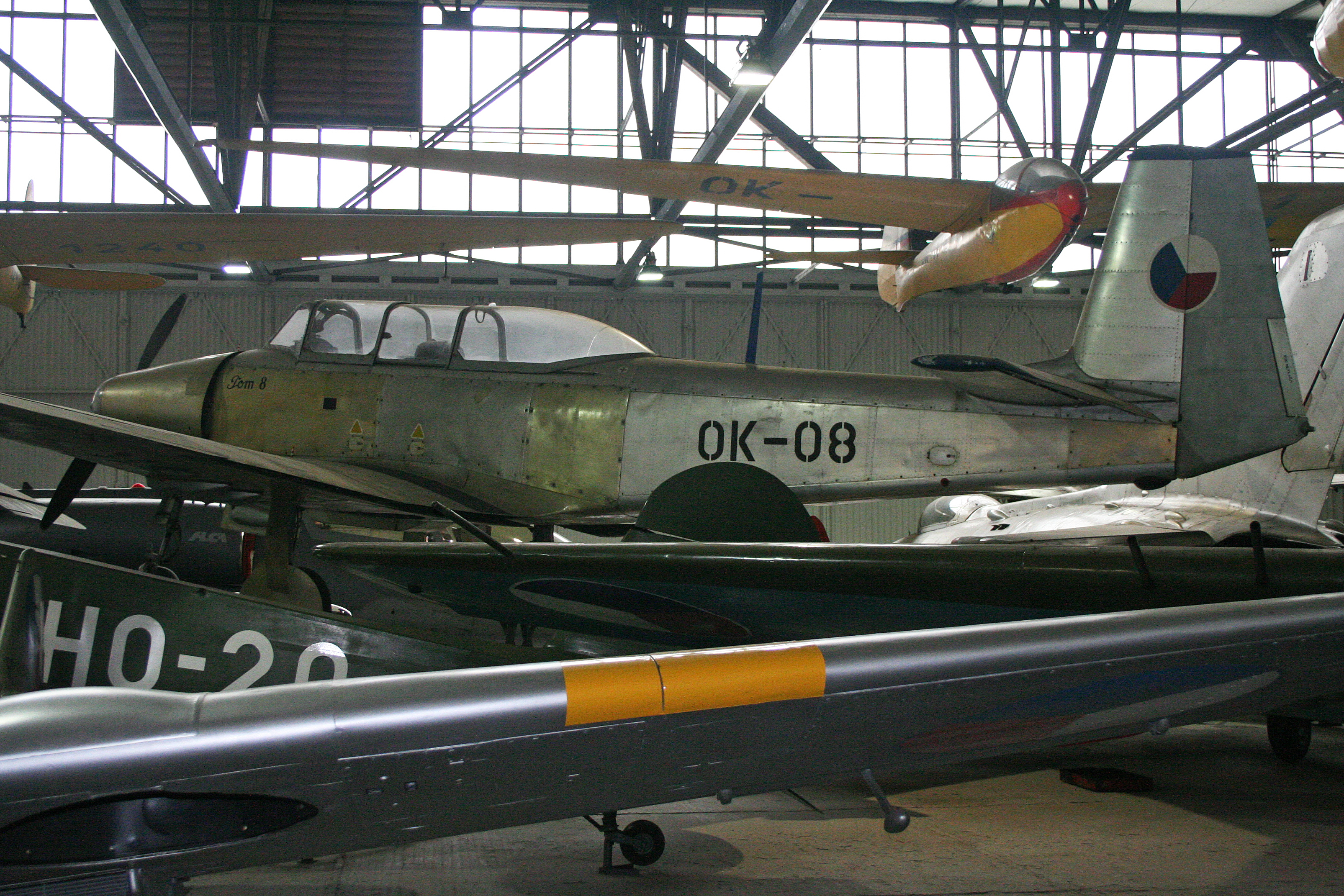 msn 04. On display in the Post War hangar, Kbely museum, Czech Republic. 07-10-2012